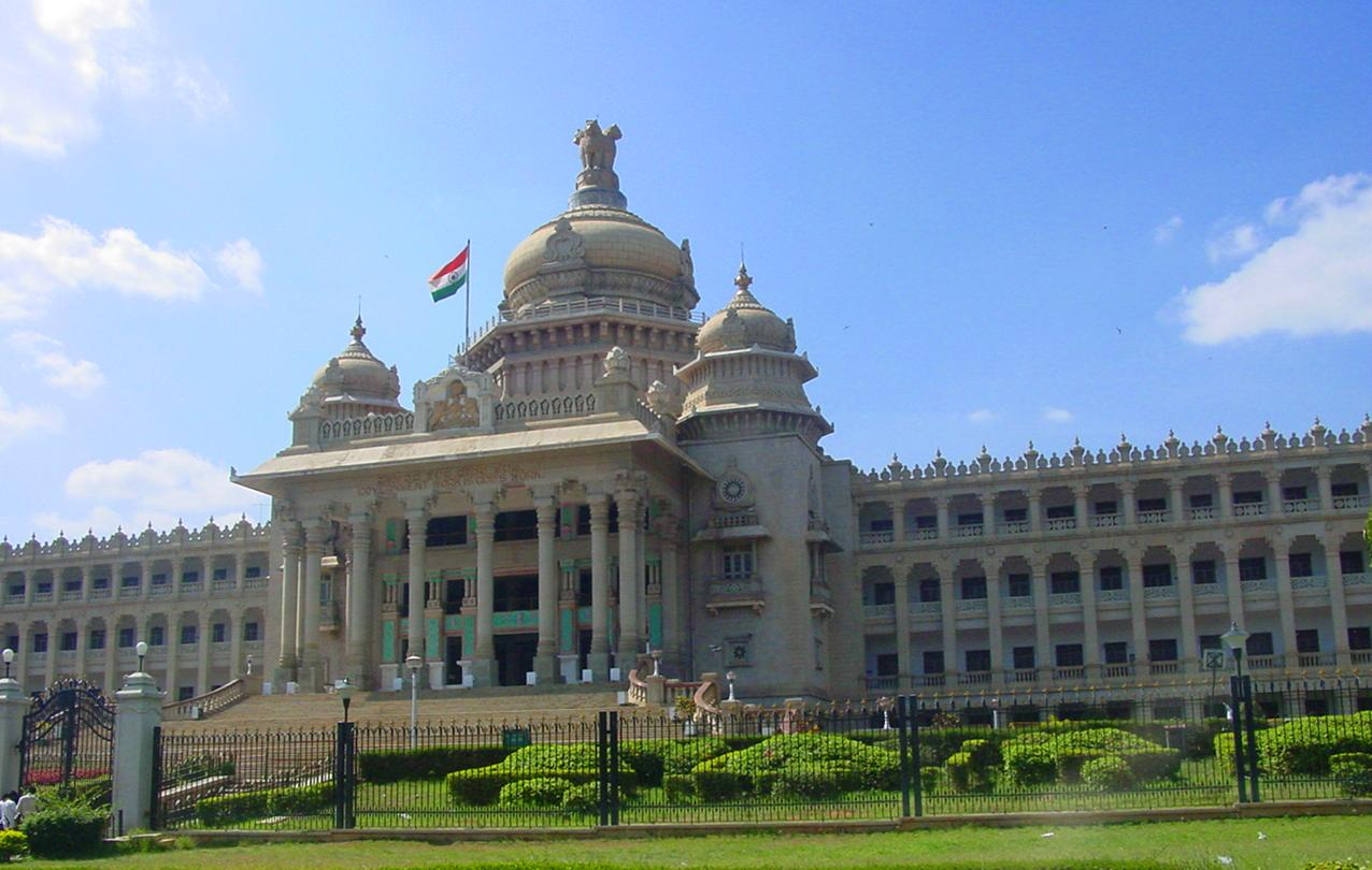 Author: Flickr User Hayath Source: Flickr URL: Author has allowed image to be used on Wikipedia under creative Commons attribution. Please follow link and read authors comments. Uploaded by Wiki user: Nikkul